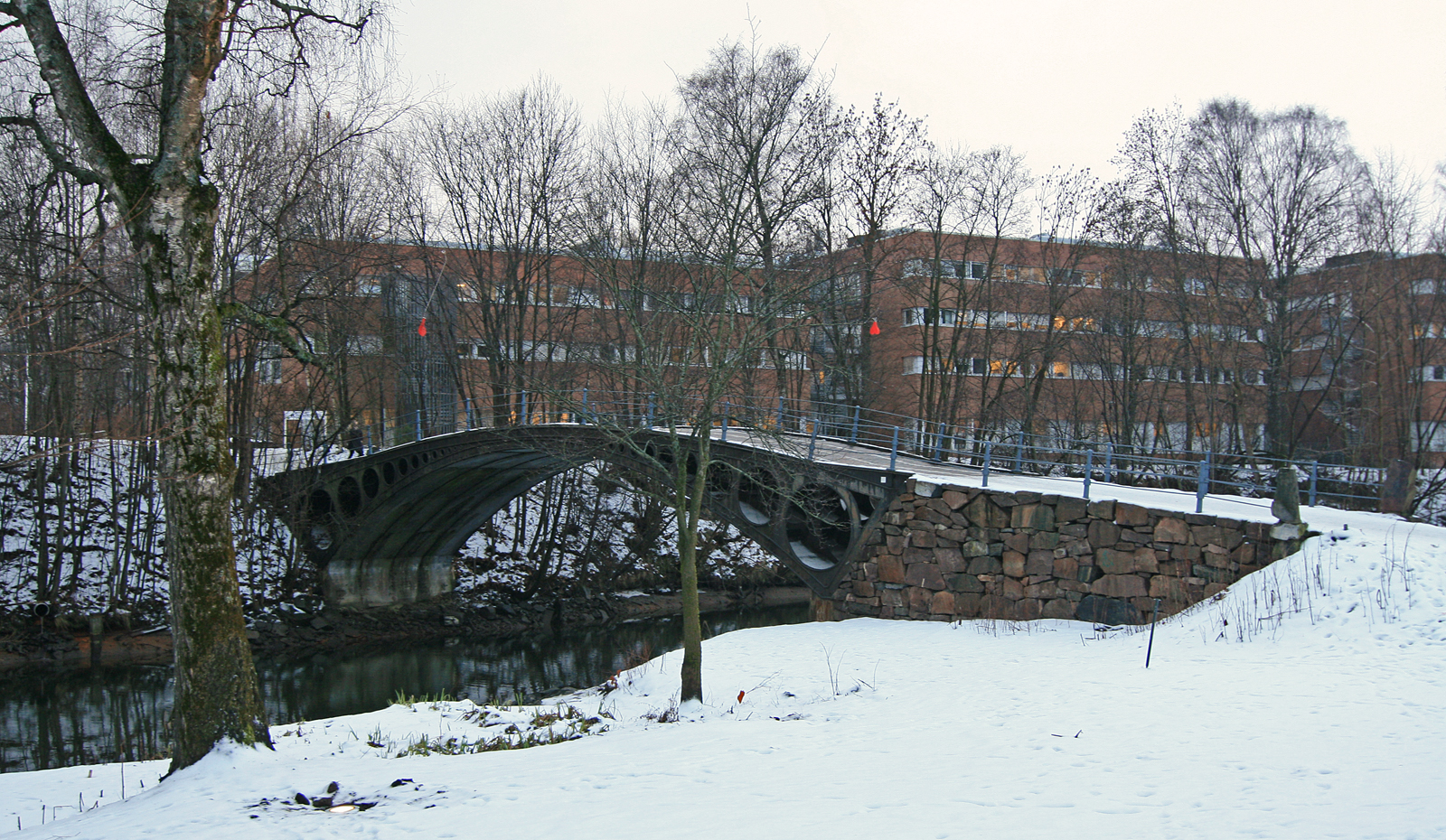 Løkke bru, Sandvika, Bærum, Norway.